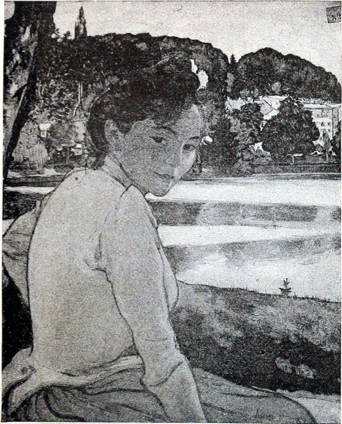 black and white reproduction of "Femme dans un paysage" (Woman in Landscape), 1889